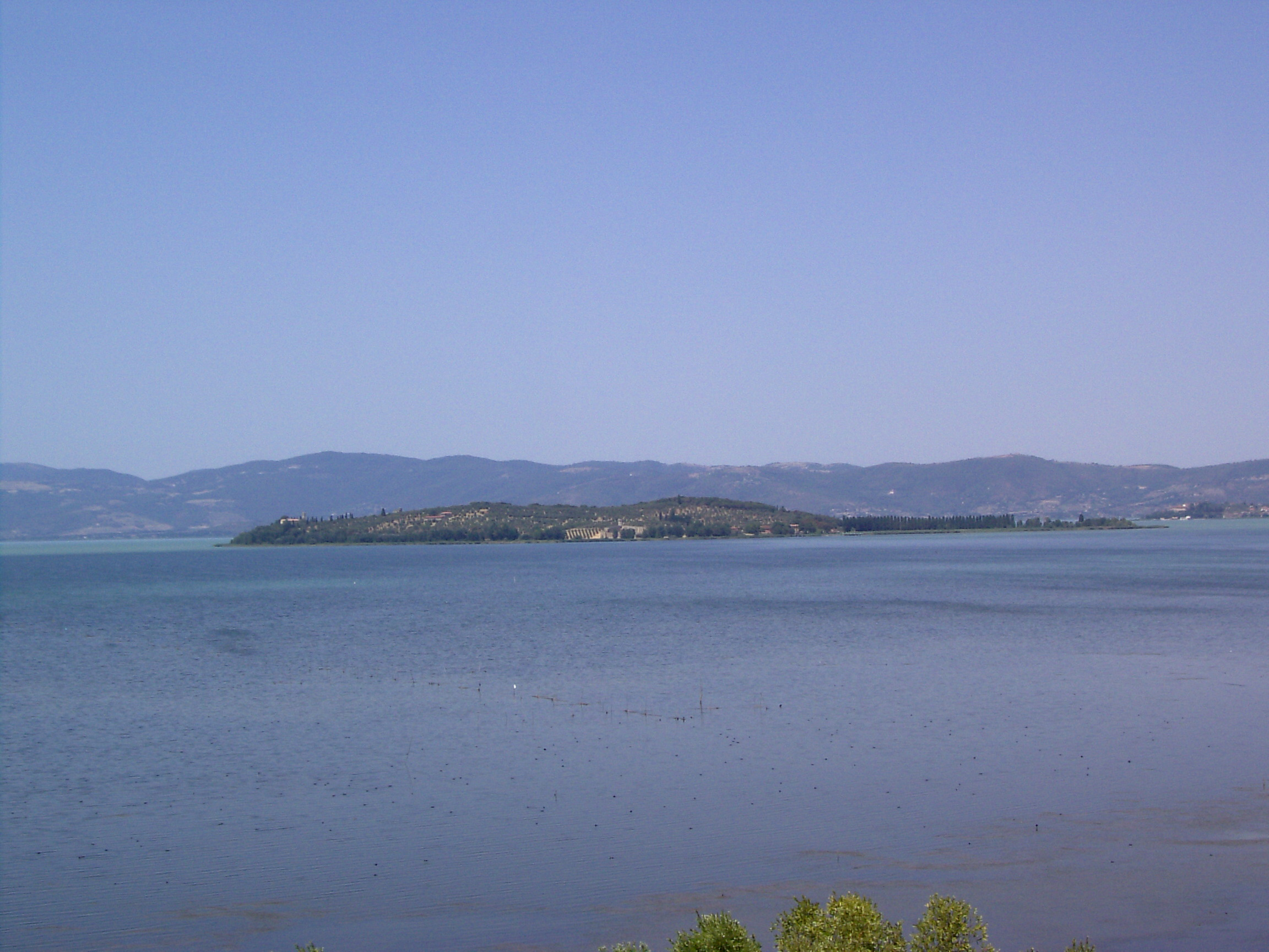 Polvese Isle seen by C.Lago